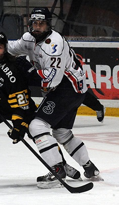 Mattias Sjögren during a SHL game against AIK.